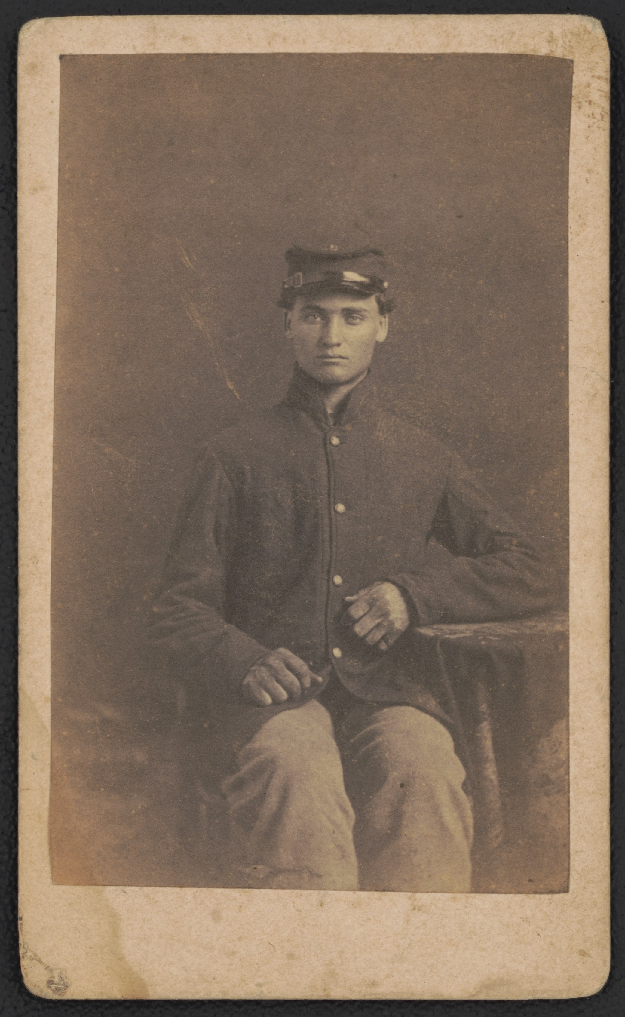 Title: Private Thomas J. Eagle of Co. I, 16th Ohio Infantry Regiment and Co. C, 114th Ohio Infantry Regiment in uniform] / From Ball & Thomas' Photographic Art Gallery, 120 West Fourth Street, near Race, Cincinnati, O Abstract/medium: 1 photograph : albumen print on card mount ; mount 11 x 6 cm (carte de visite format)